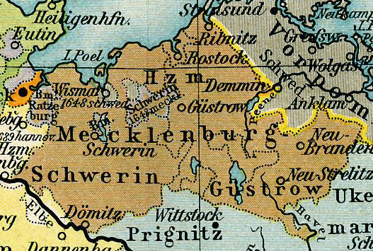 A map of Mecklenburg circa 1648, showing the division between Mecklenburg-Schwerin and Mecklenburg-Güstrow